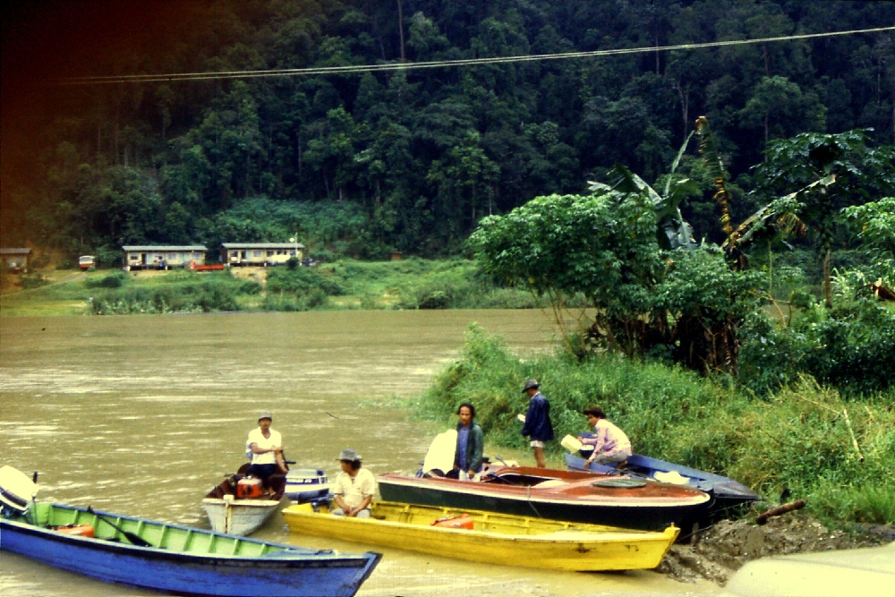 Kinabantangan river visited on 2 February 1984 (Scan from diapositive)